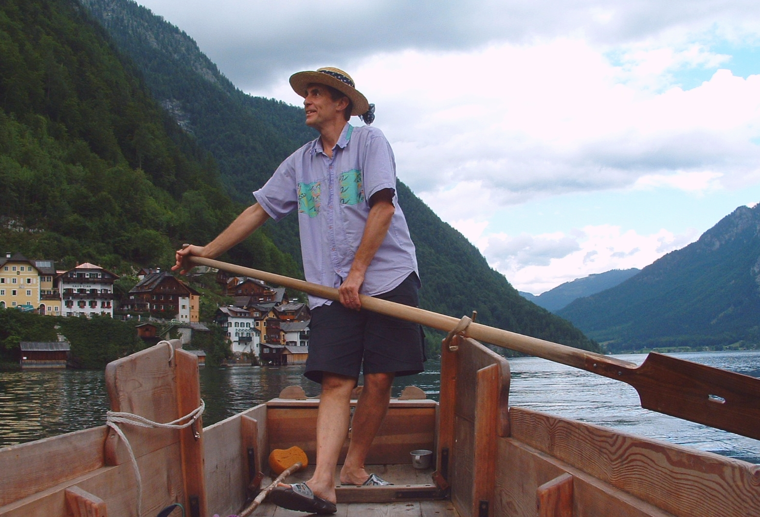 Typical boat at lake Hallstatt Photograph by Gakuro